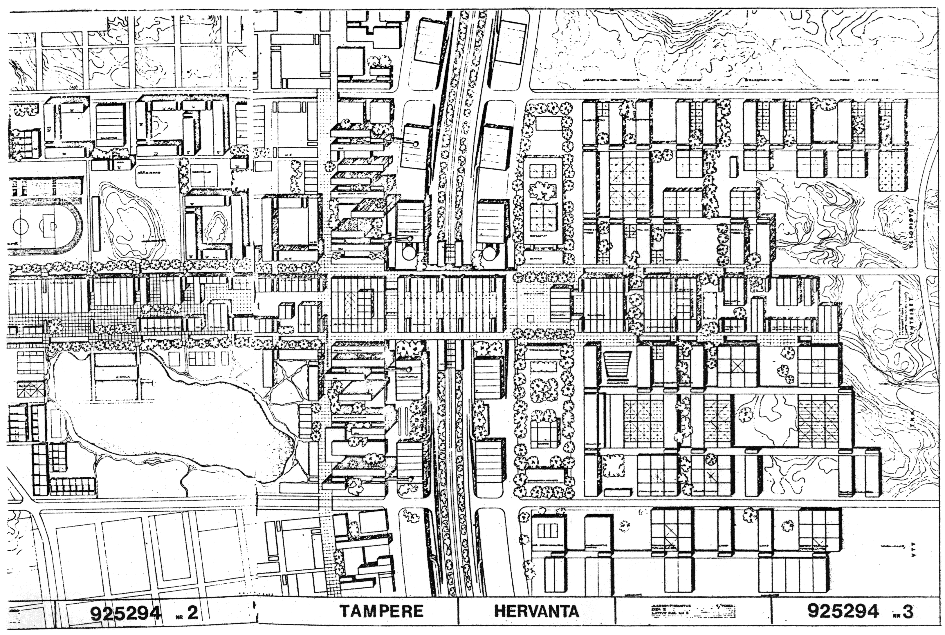 Professor Aarno Ruusuvuori won the 1st prize with this general plan in 1968. The original plan of the center of Hervanta is visible in this drawing.